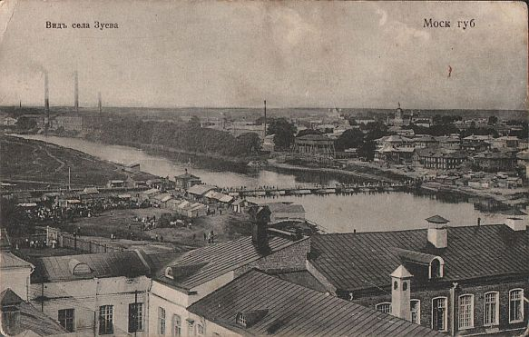 View of Zuevo (now Orehovo-Zuevo) in Moscow Oblast, Russia.